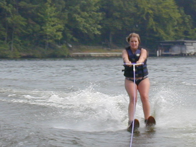 Tracy Birdwhistell water skis on Lake Gaston, NC-VA July 10, 2004. Photo by James E. Scarborough.